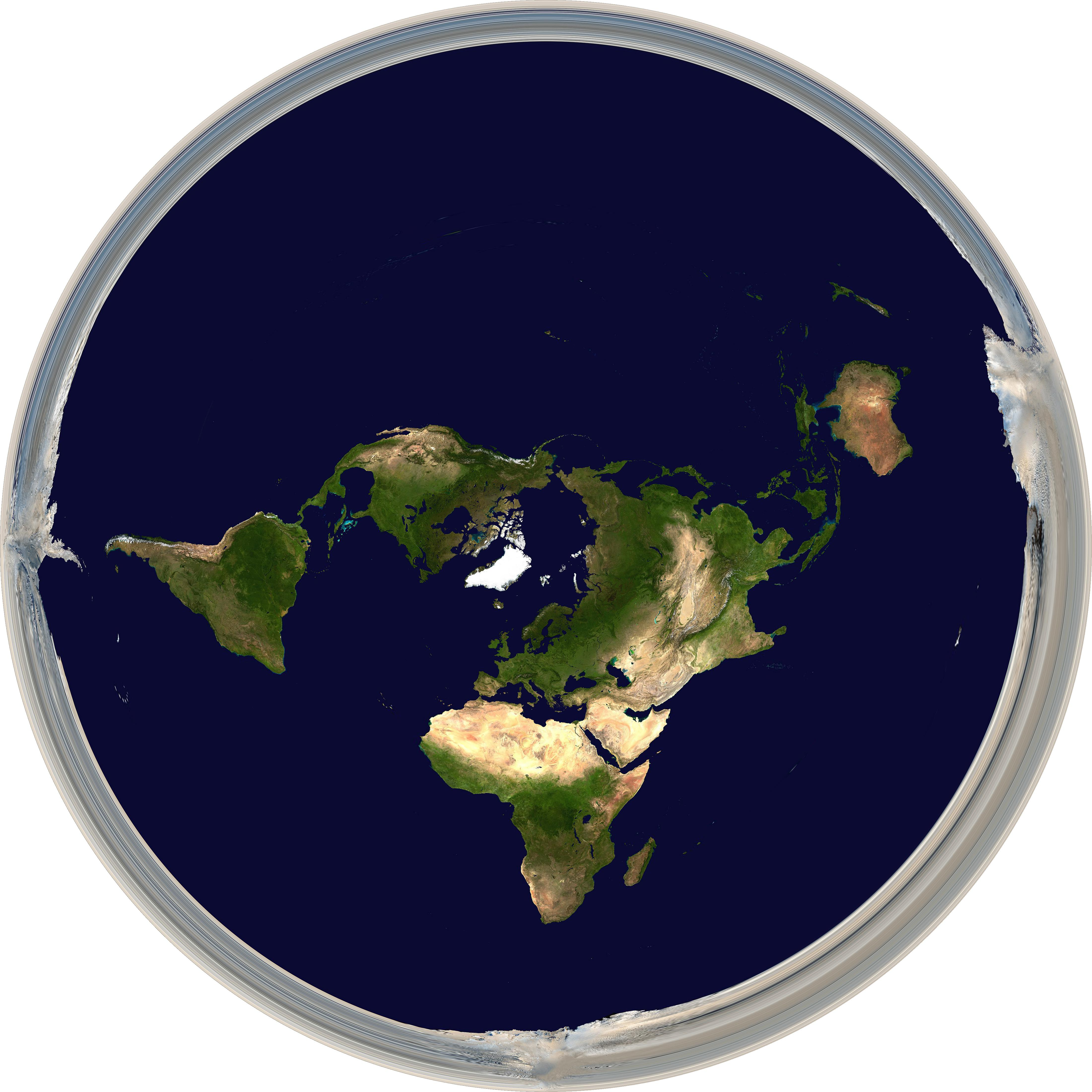 Physical map of the world in Hellerick triaxial boreal projection. Axial meridians: E 20, E 130, W 70. Inter-axial meridians: W 22.5, E 63, W 150. Meridianal stretching: 0.8